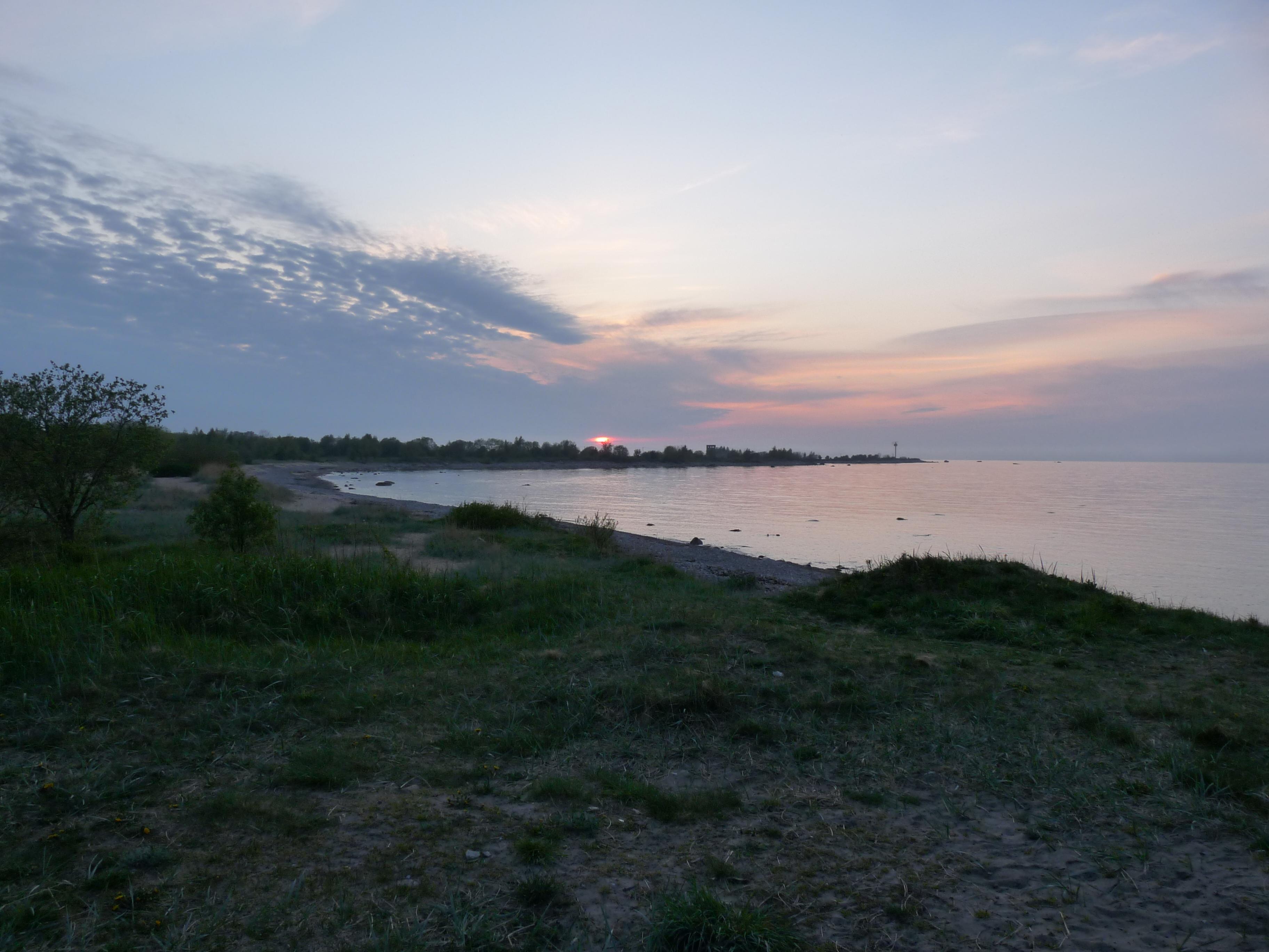 Tallinn Gulf's shore in Palassaare